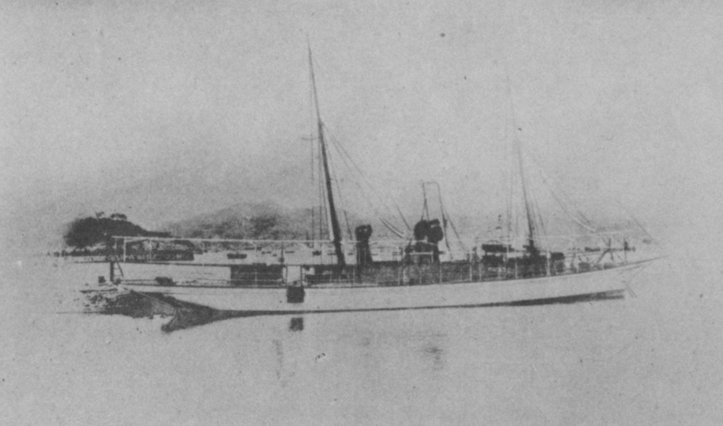 Japanese royal yacht HATSUKAZE.